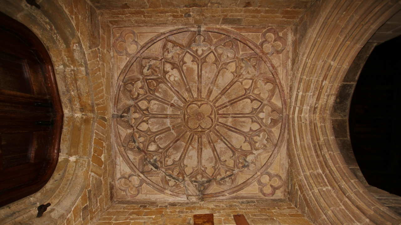 17th-century "saucer vault" of the north porch of the parish church of SS Peter and Paul, Deddington, Oxfordshire. It is not a vault in the true sense but a flat ceiling with blind tracery.